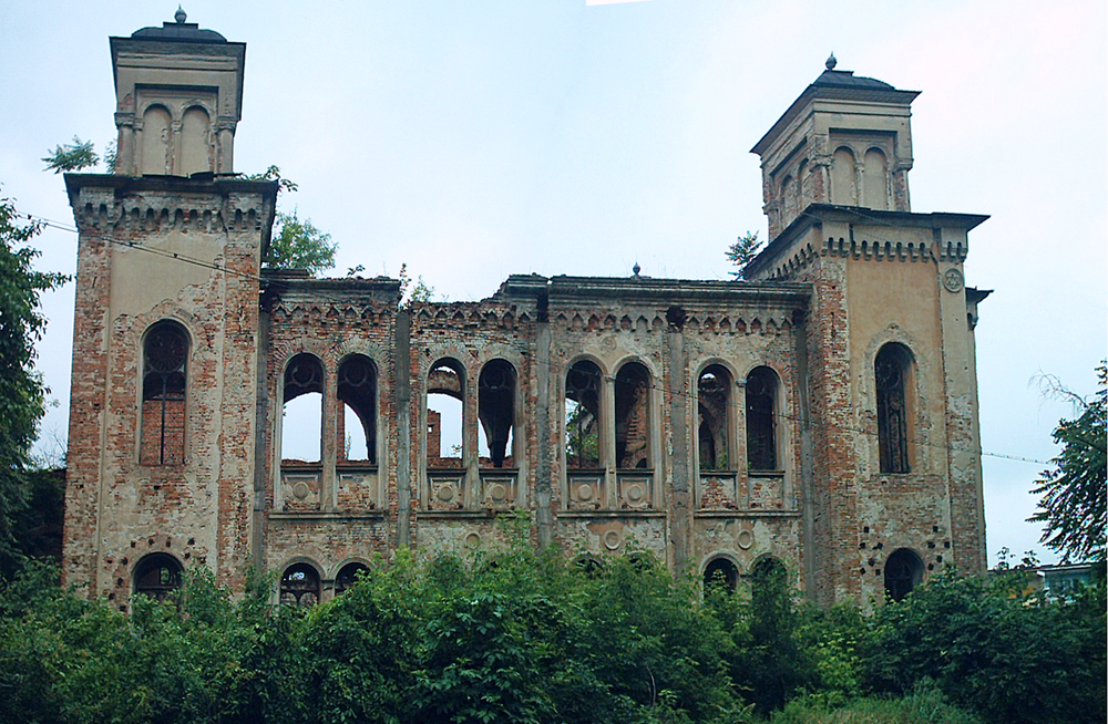 Deserted Sinagoga after Jewish Еmmigration from Bulgaria to Izrael(historic Palestine), Vidin, Bulgaria